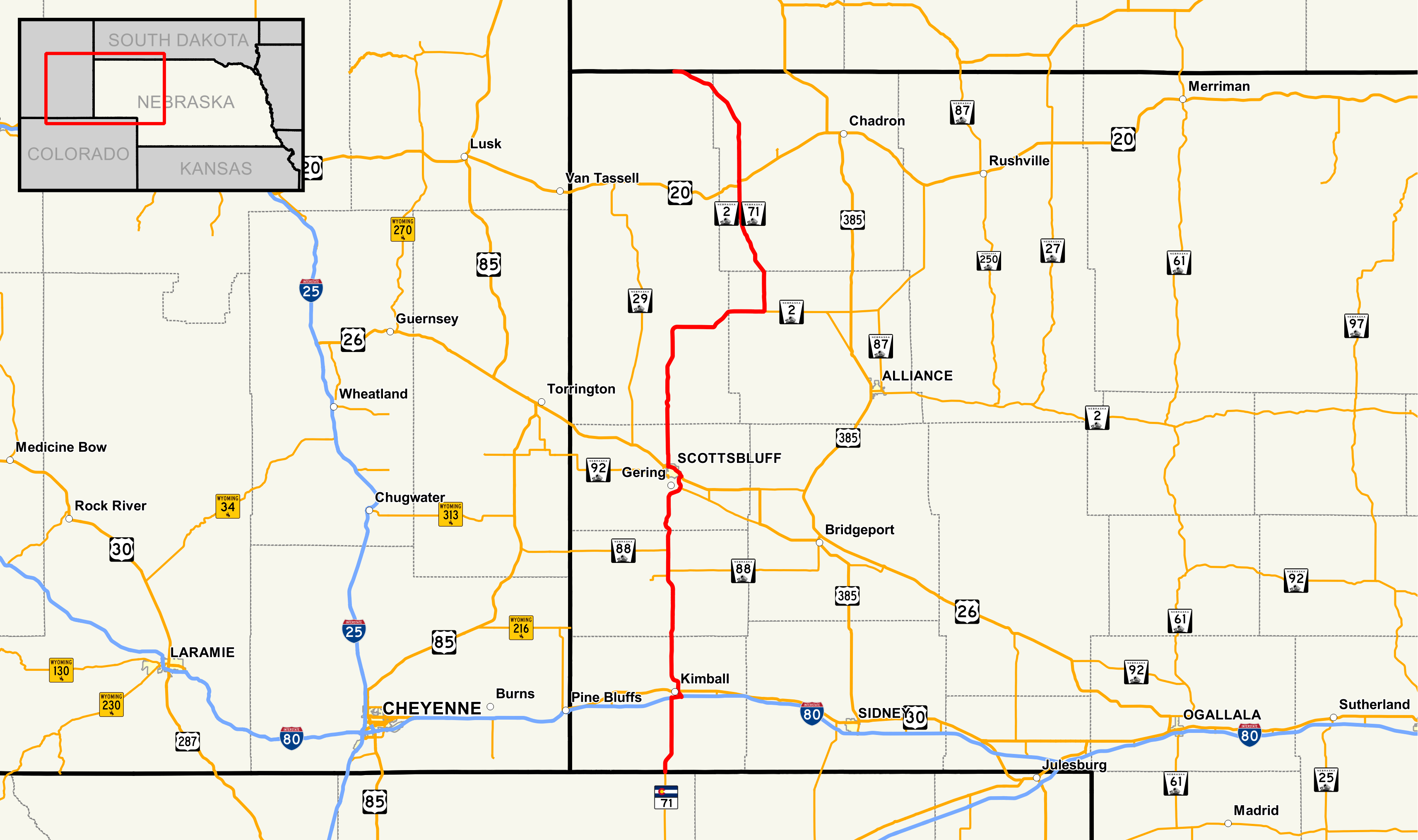 Map of Nebraska Highway 71 Data Sources: Nebraska Highways - - Dec 2016 Nebraska County Boundaries - - Dec 2016 Nebraska City Boundaries - - Dec 2016 This PNG graphic was created with QGIS